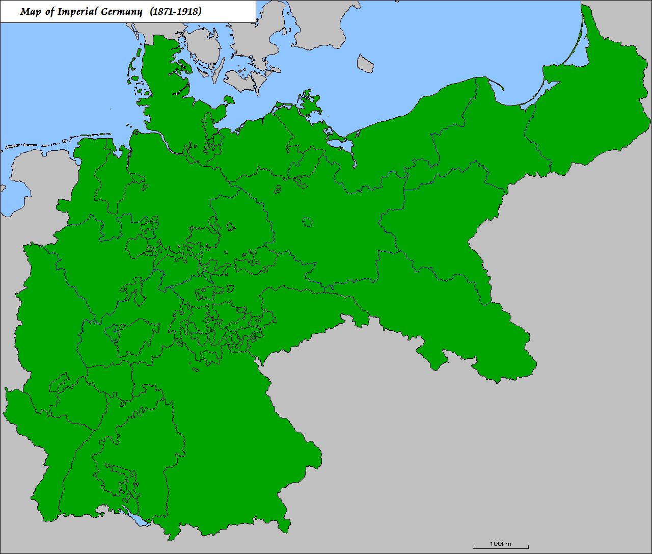 Map of the German Empire, 1871-1918, showing its individual states and the provinces of Prussia